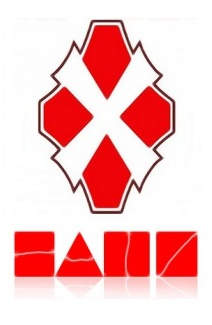 Logo of the Russian youth movement NASHI (Ideology: Anti-fascism, democracy)